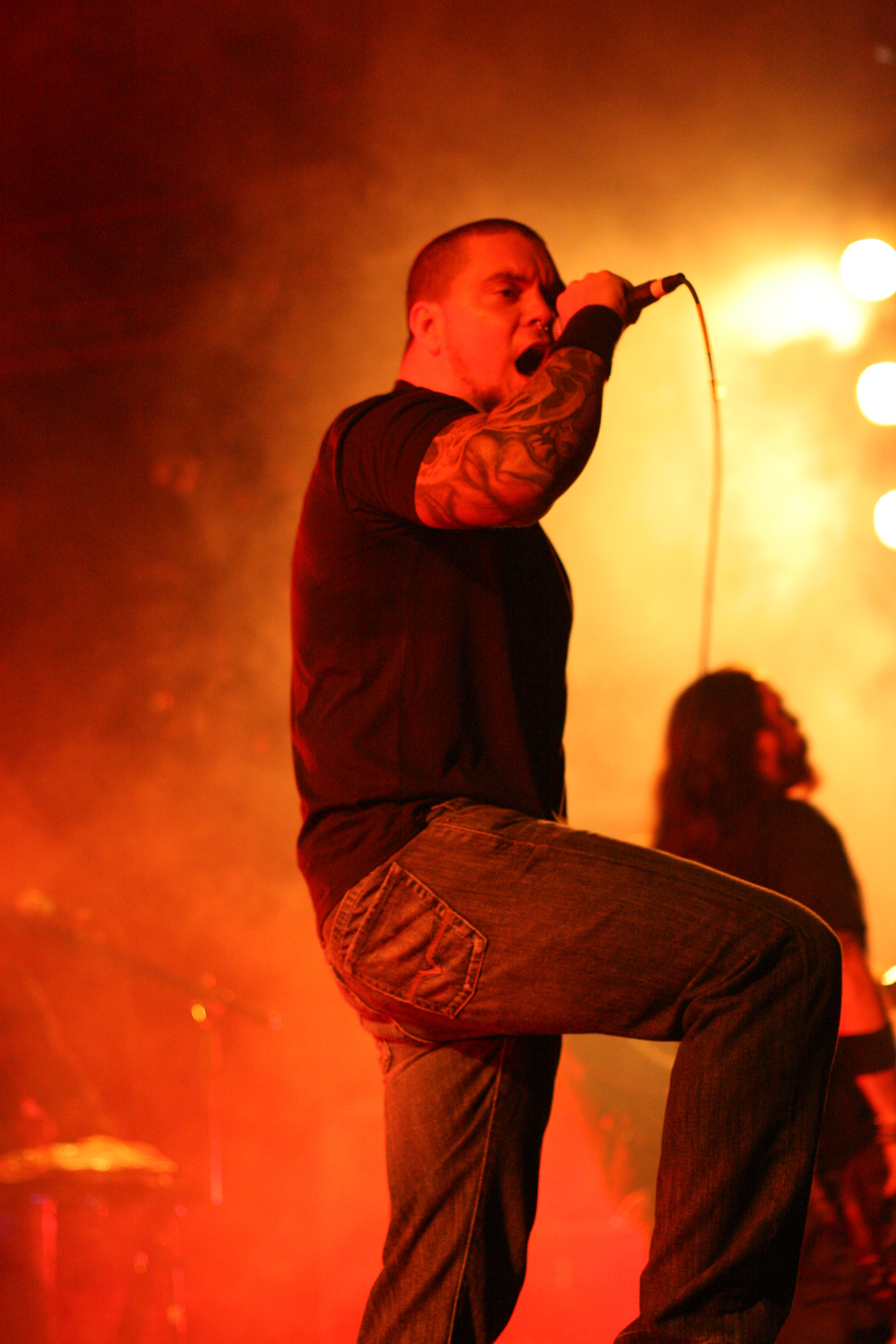 Chimaira | Nokia Theatre | 6.25.08